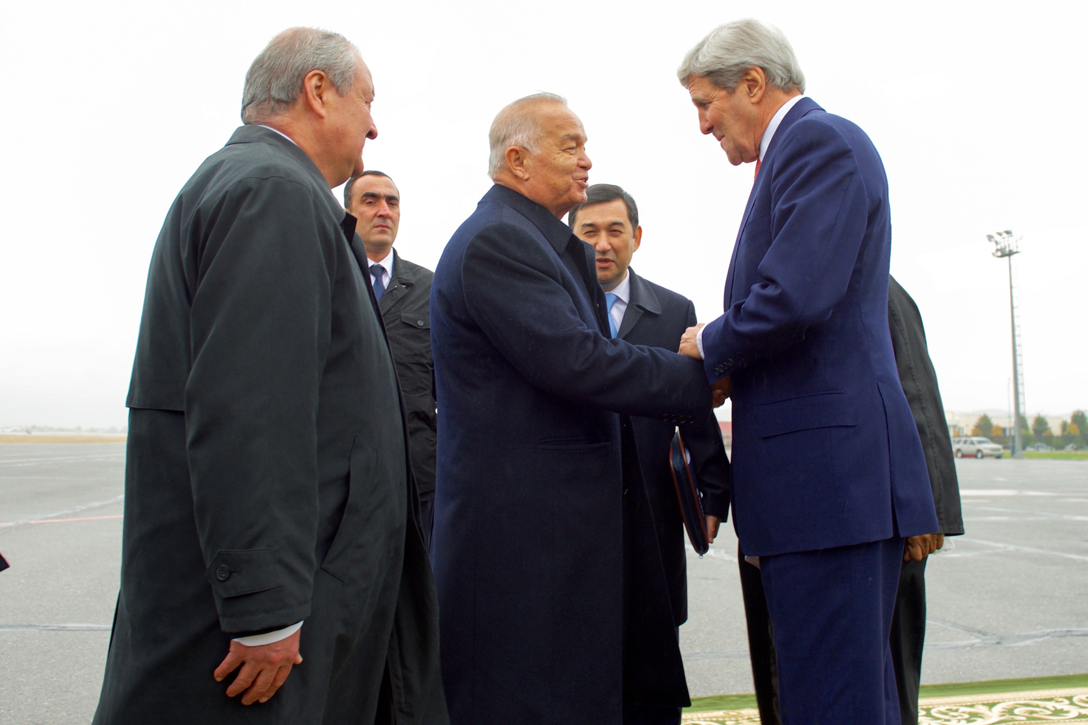 U.S. Secretary of State John Kerry shakes hands with Uzbekistan President Islam Karimov -- as Ukbek Foreign Minister Abdulaziz Kamilov looks on -- after the Secretary arrived at Samarkand International Airport in Samarkand, Uzbekistan, on November 1, 2015, for a bilateral meeting and broader group discussion with all five Central Asian nations.